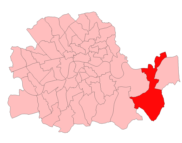 A map of Woolwich West constituency within the London County Council area, as it existed from 1918 to 1949.